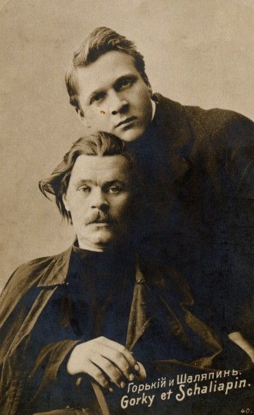 Maxim Gorky and Feodor Chaliapin